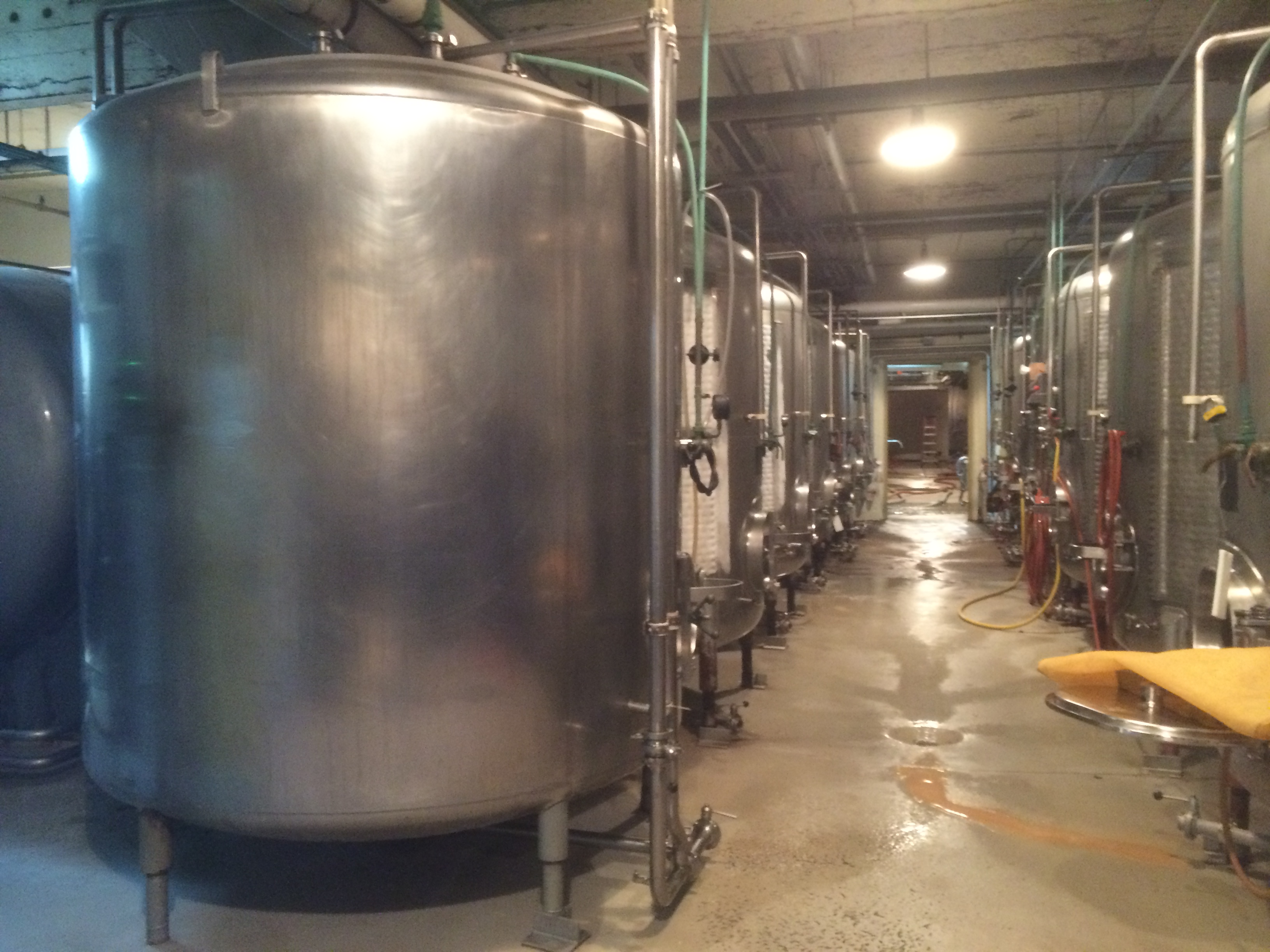 Beer conditioning tanks at the Anchor Brewing Company location in Potrero Hill district of San Francisco.